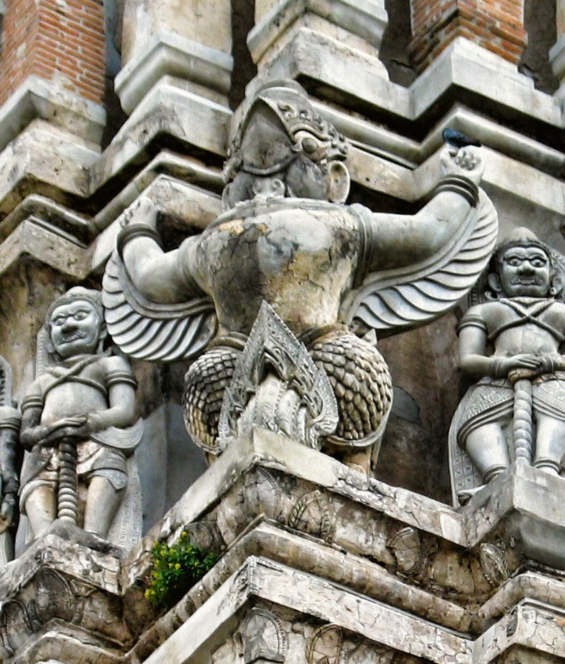 Wat Ratchaburana (also Wat Ratburana), Ayutthaya historical park, Thailand